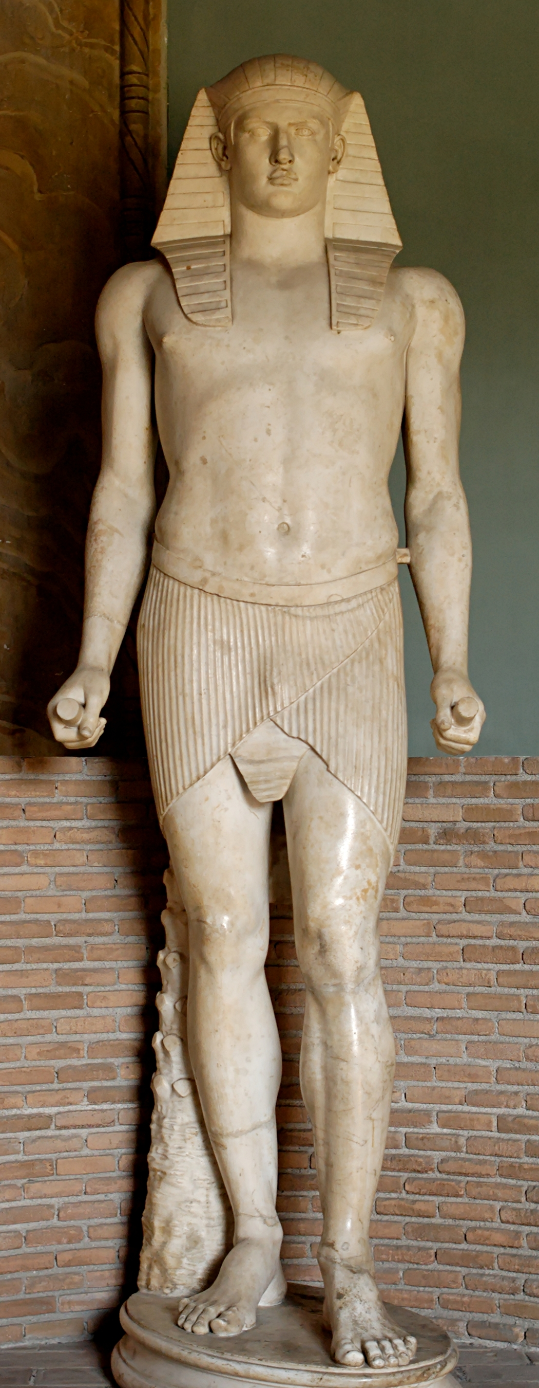 Antinous as Osiris. Marble, Roman artwork, second part of Hadrian's reign, ca. 131–138 CE. From the Serapaeum of the Canope in the Villa Adriana, near Tivoli, 1736.